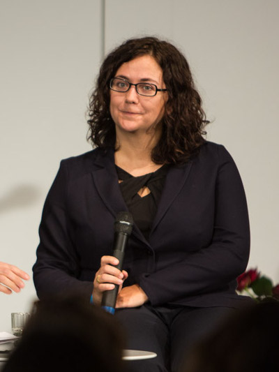 Maria Wersig